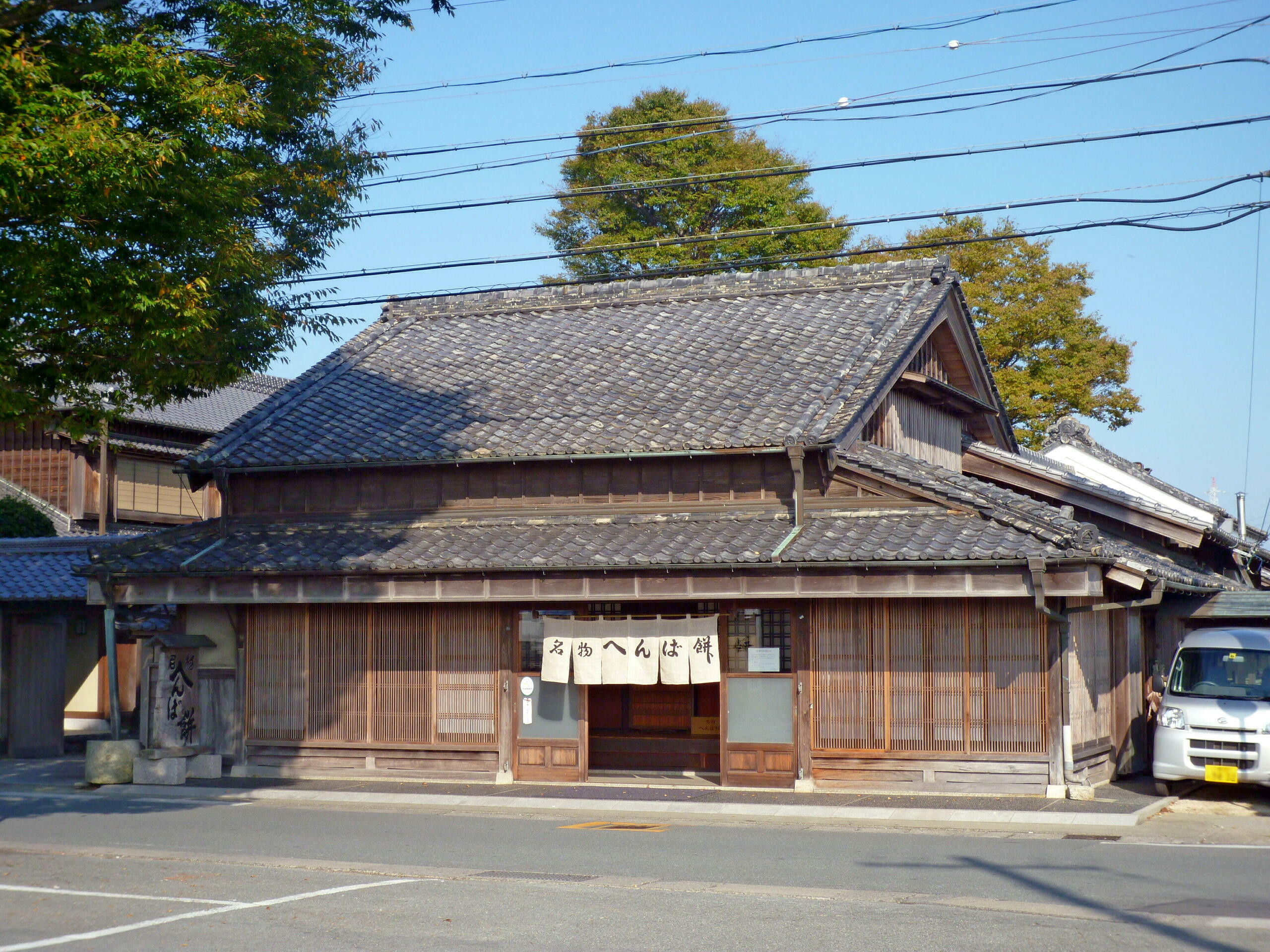 The "Henbaya Shōten Honten" in Obata-chō-akeno, Ise, Mie, Japan.It is Wagashi "Henba-mochi" shop.